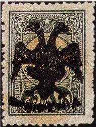 Albania 1913, 25pi Green ( Unissued Colour)